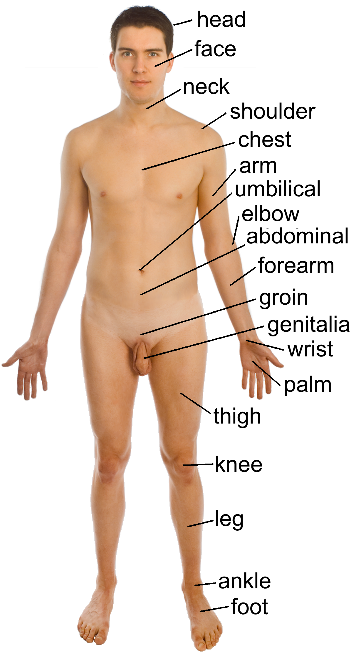 Human male body, dressed in traditional Swedish sauna-wear, seen in frontal or anterior view, standing in anatomic position. The model was 22 years old at caption, and did it for the sake of free knowledge to all humankind. It is appreciated if it's not used for purposes too remote from its original, scientific, one.